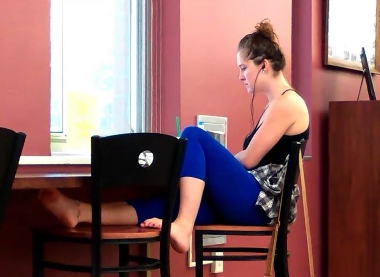 Barefoot woman sitting in a library. She is wearing a black top and blue leggings.